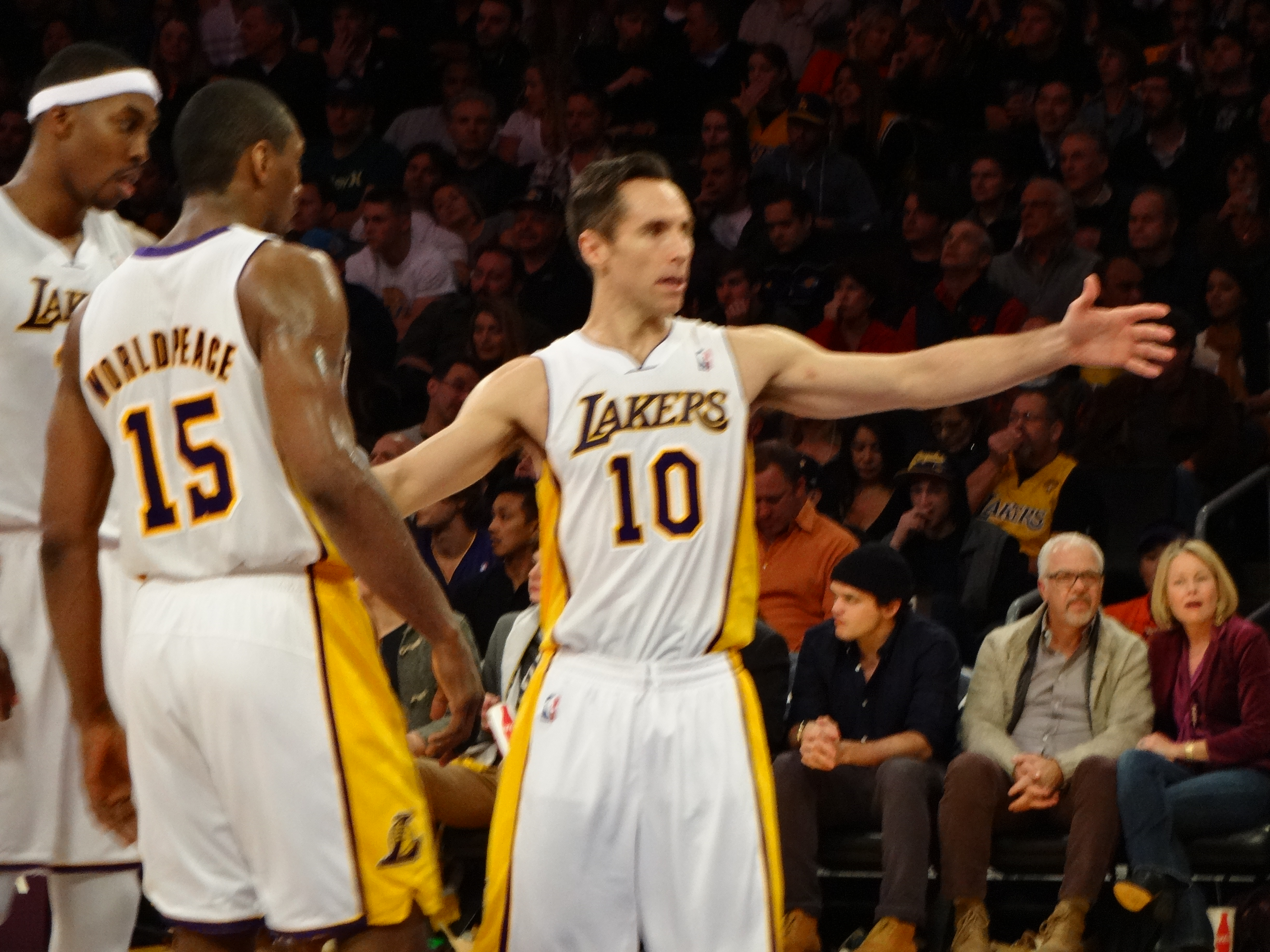 Los Angeles Lakers vs Denver Nuggets at the Staples Center. Steve Nash, with Dwight Howard and Metta World Peace.